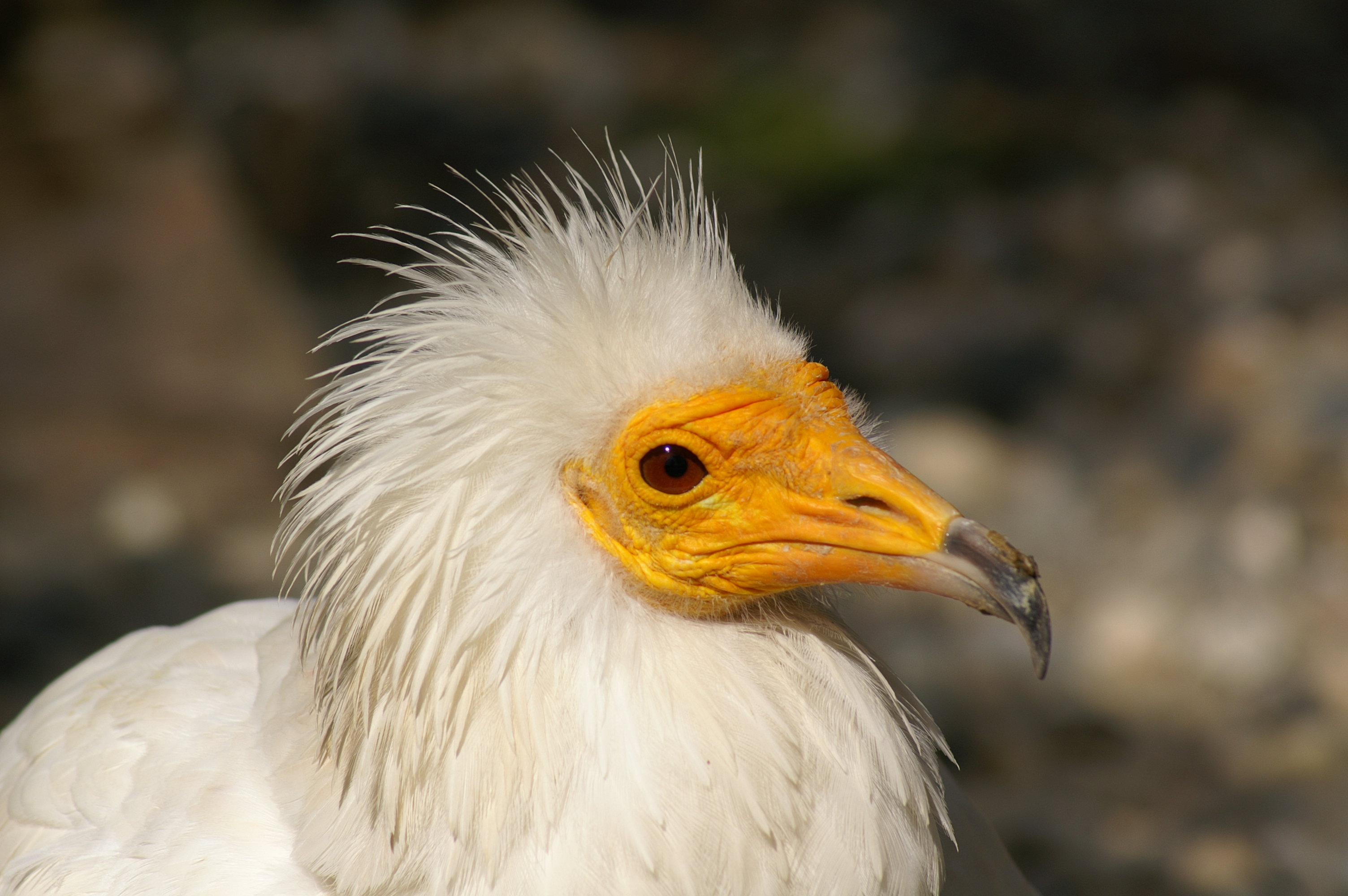 Egyptian Vulture